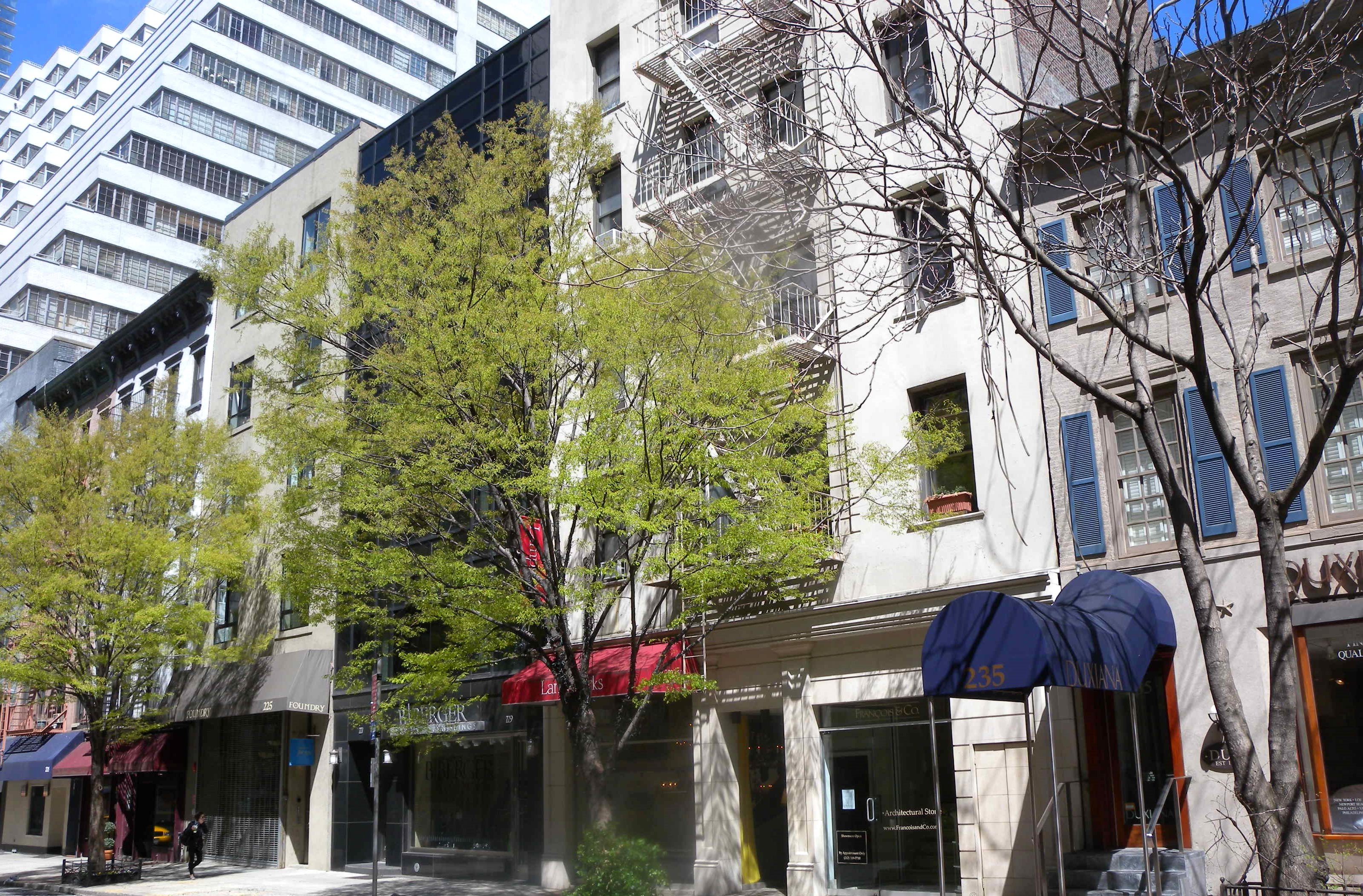 Looking north across 58th St at Designers Way on a sunny midday.